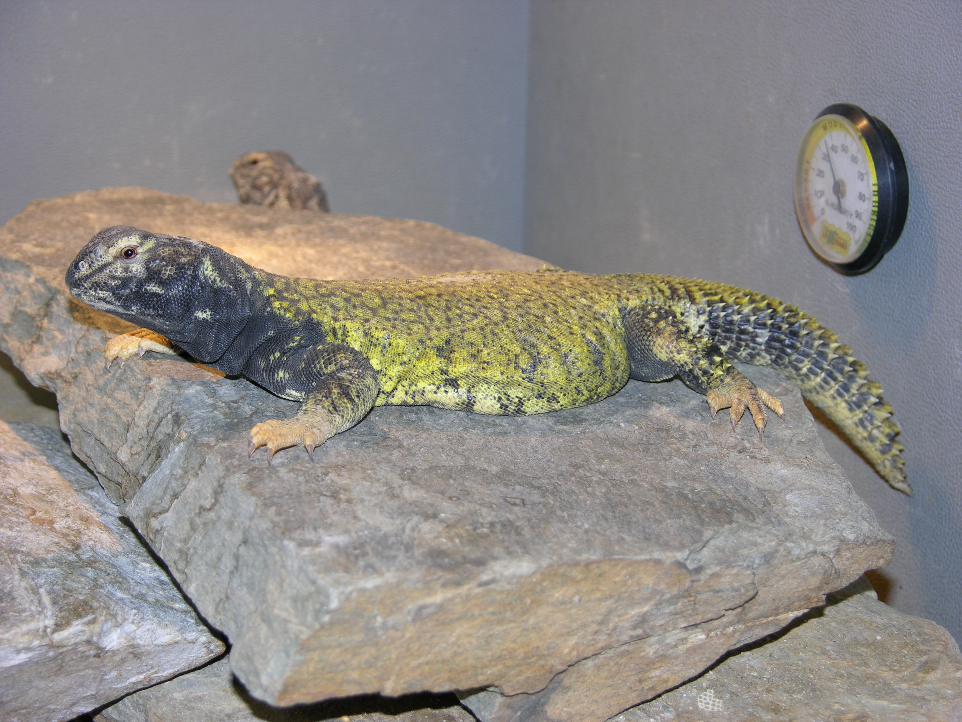 Adult male Mali Uromastyx; female peeking her head up in background